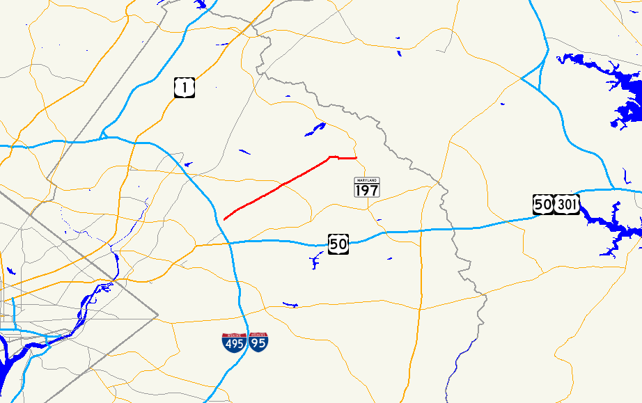 Map of Maryland Route 564